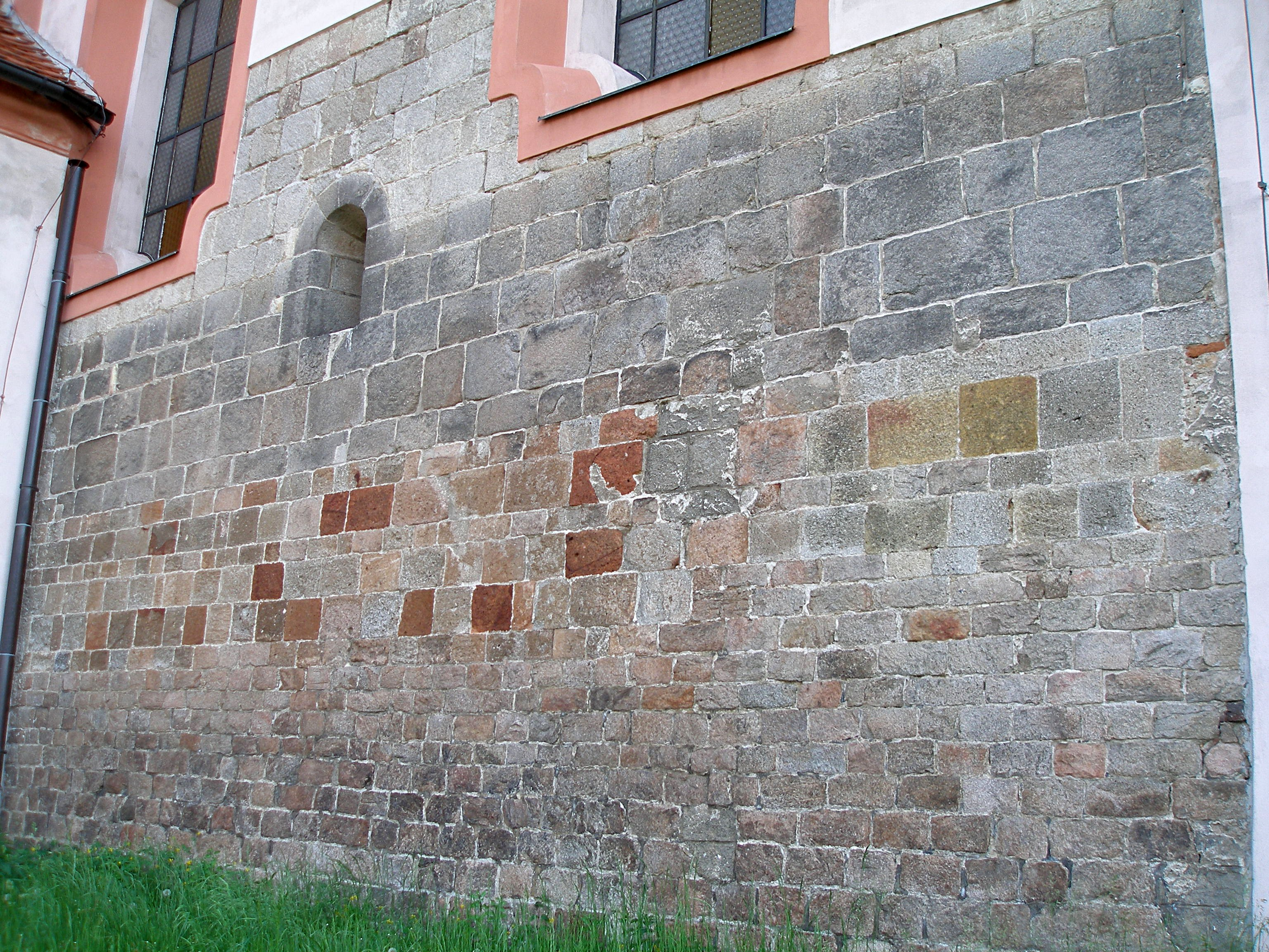 Nový Knín - the uncovered Romanesque part of the Northern wall of the St. Nicholas church